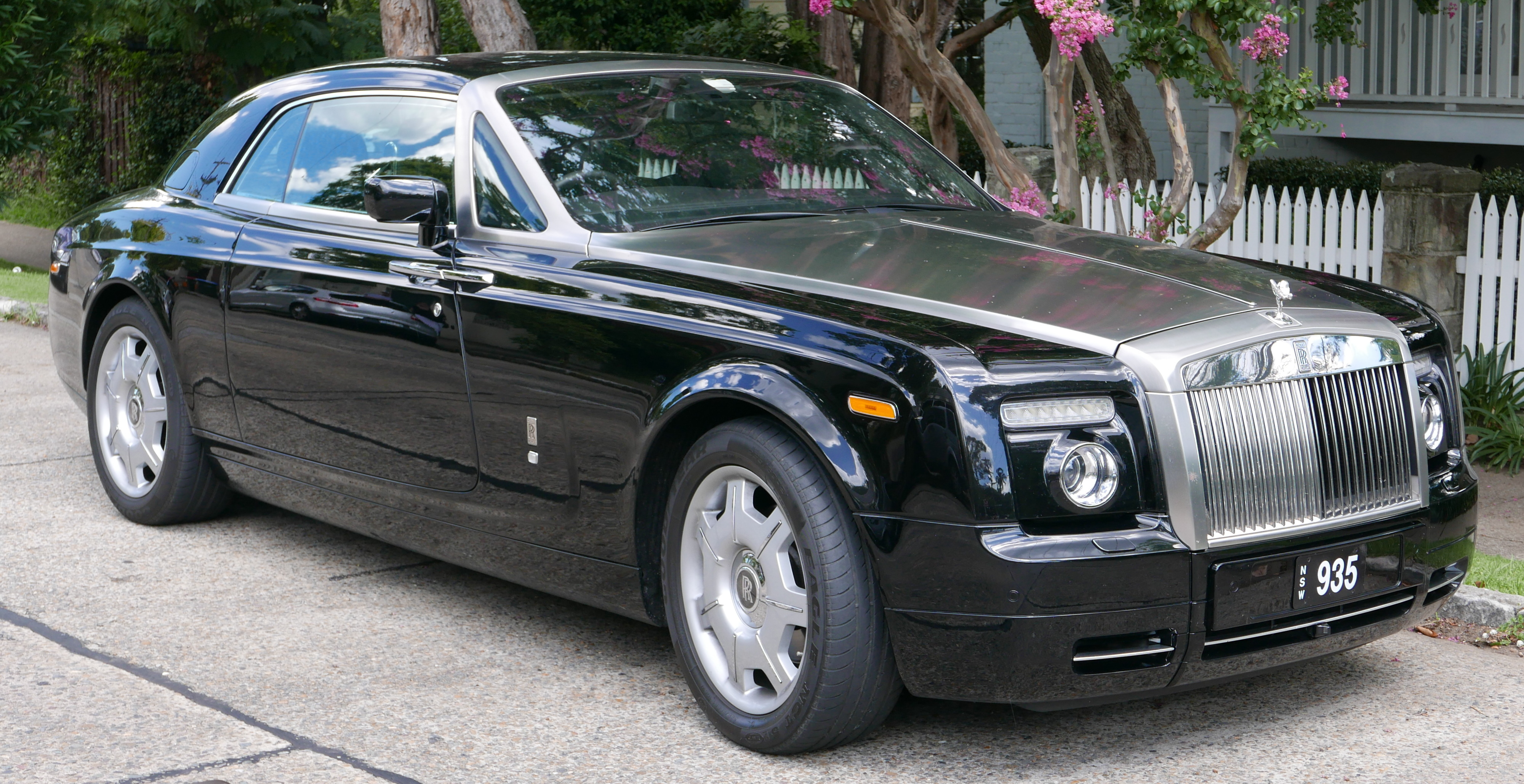 2009 Rolls-Royce Phantom (3C68) coupe. Photographed in Hunters Hill, New South Wales, Australia.